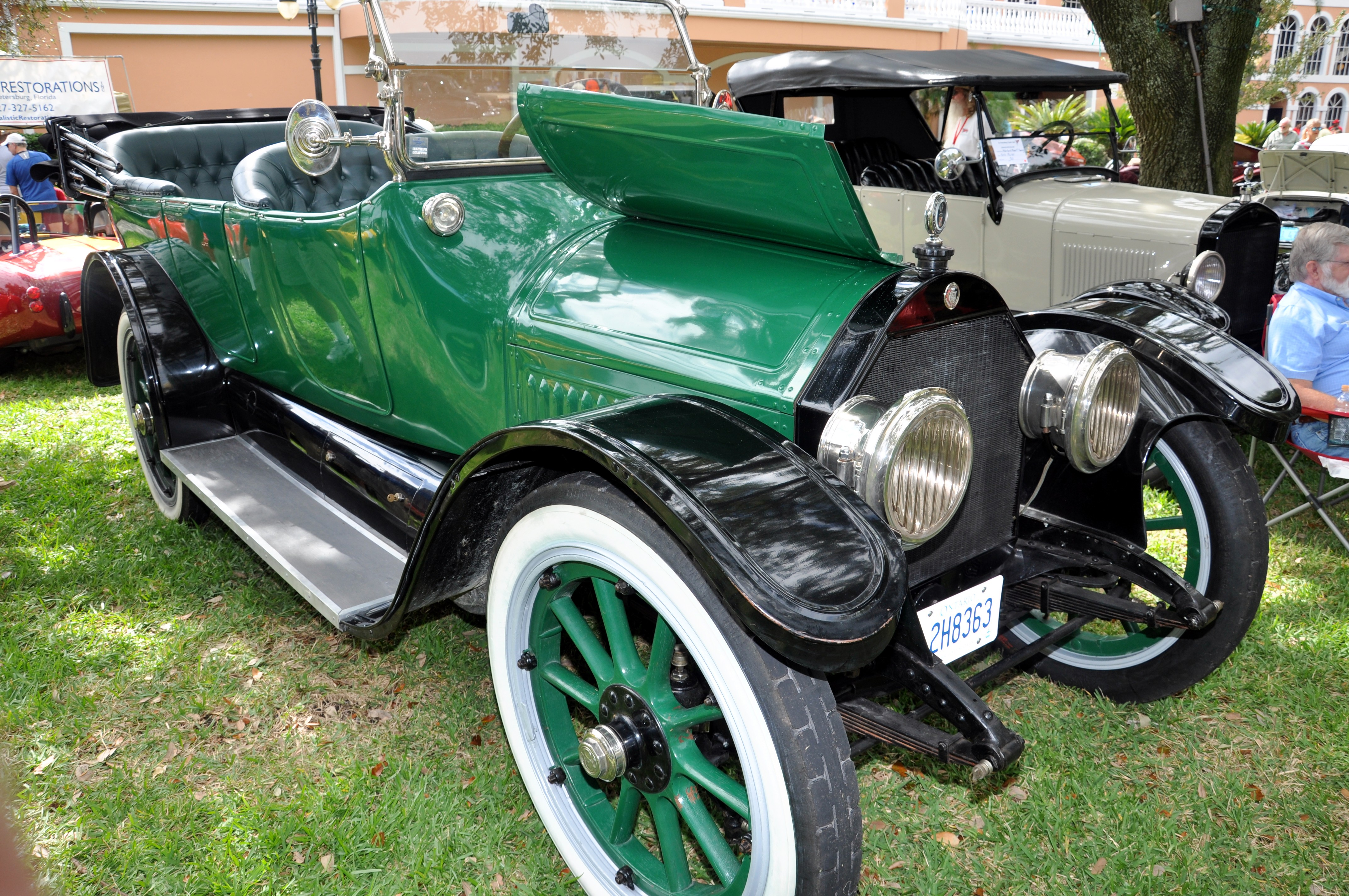 1915 Cadillac 51 St. Petersburg Vintage Motor Classic